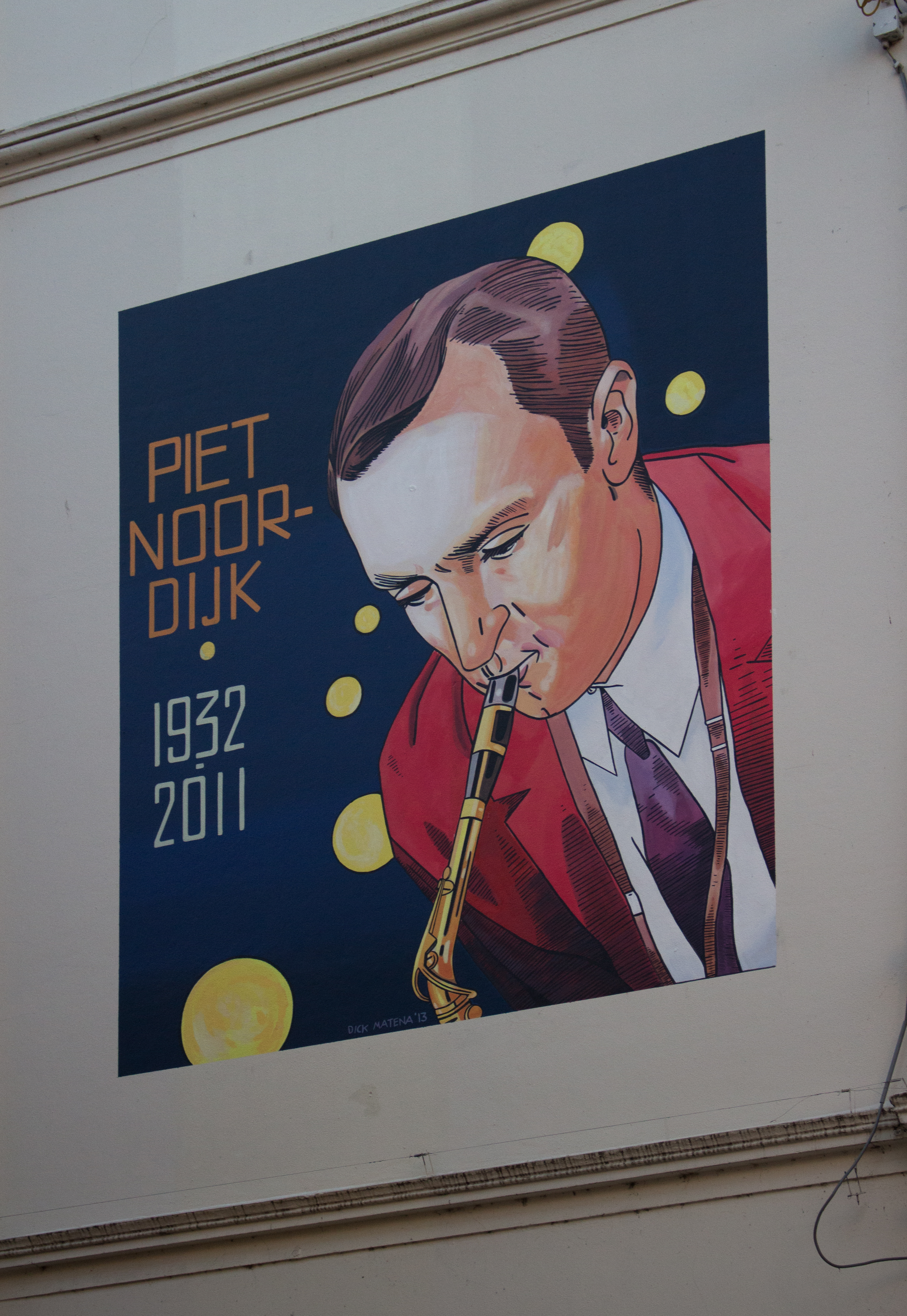 Piet Noordijk by Dick Matena